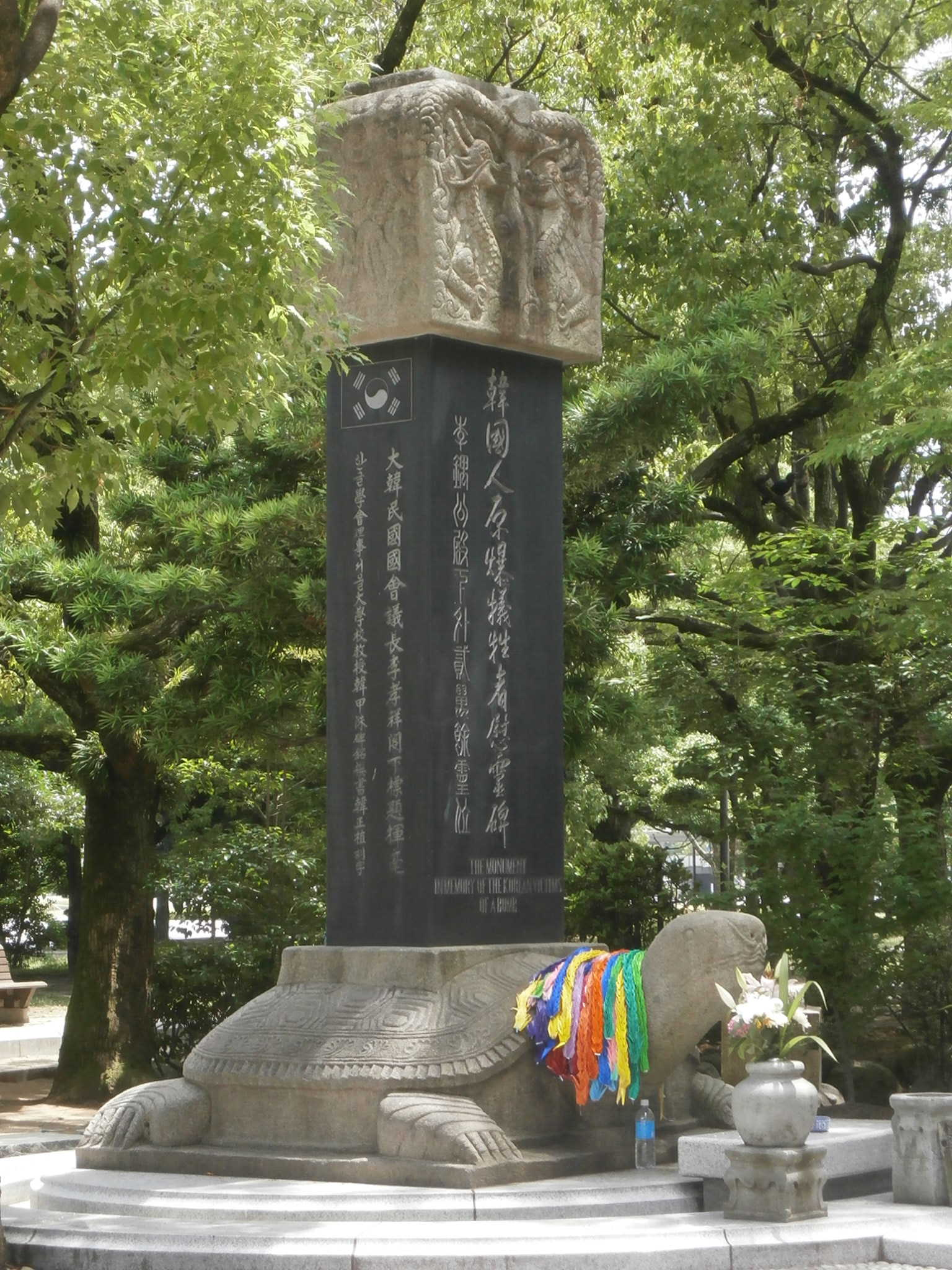 Korean atomic bomb victim cenotaph in HIroshima.